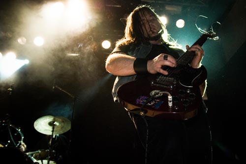 Jus Oborn of Electric Wizard, live at Hole In The Sky, Bergen Metal Fest 2007